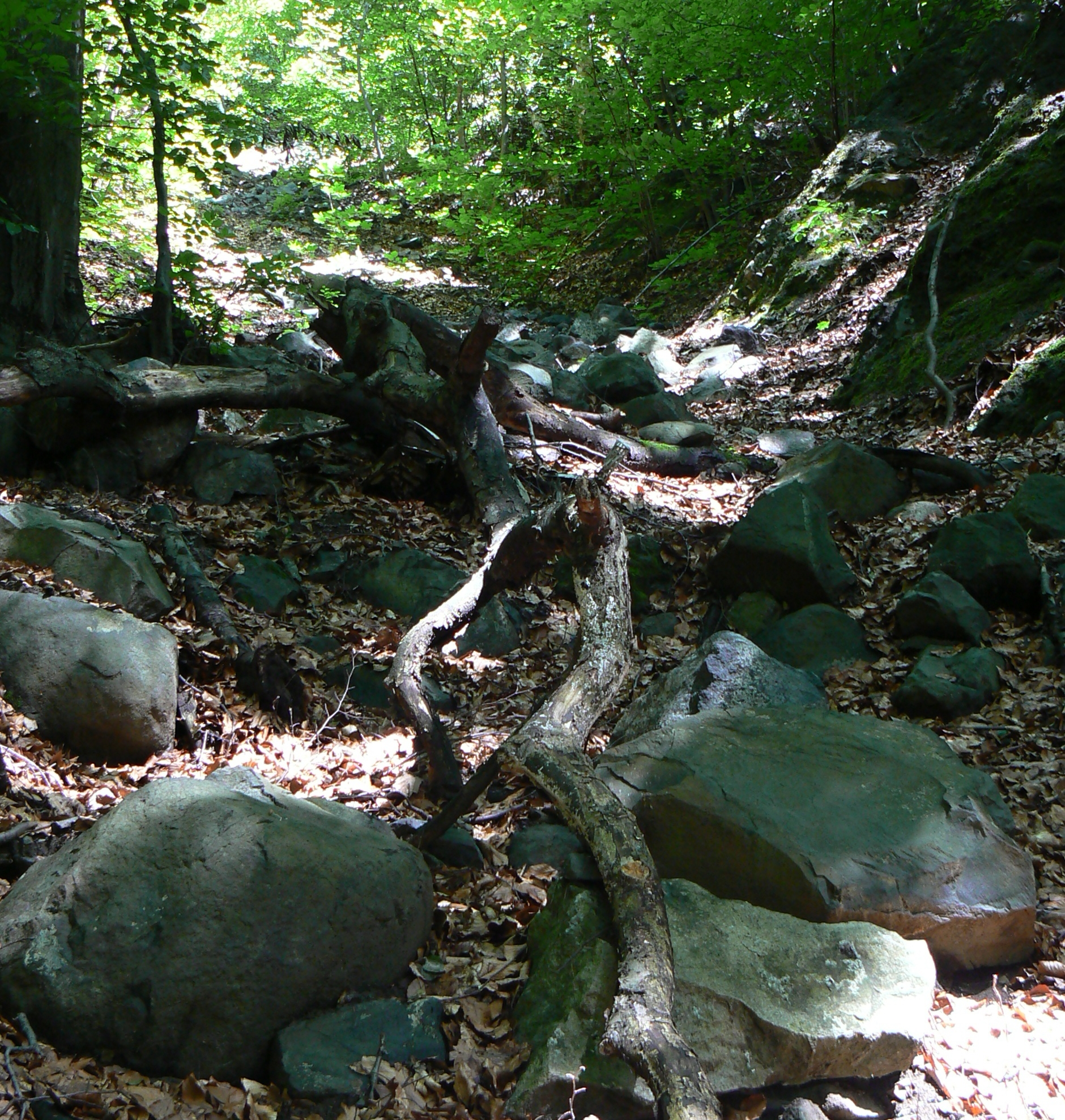 Natural monument Divoká rokle near Ústí nad Labem